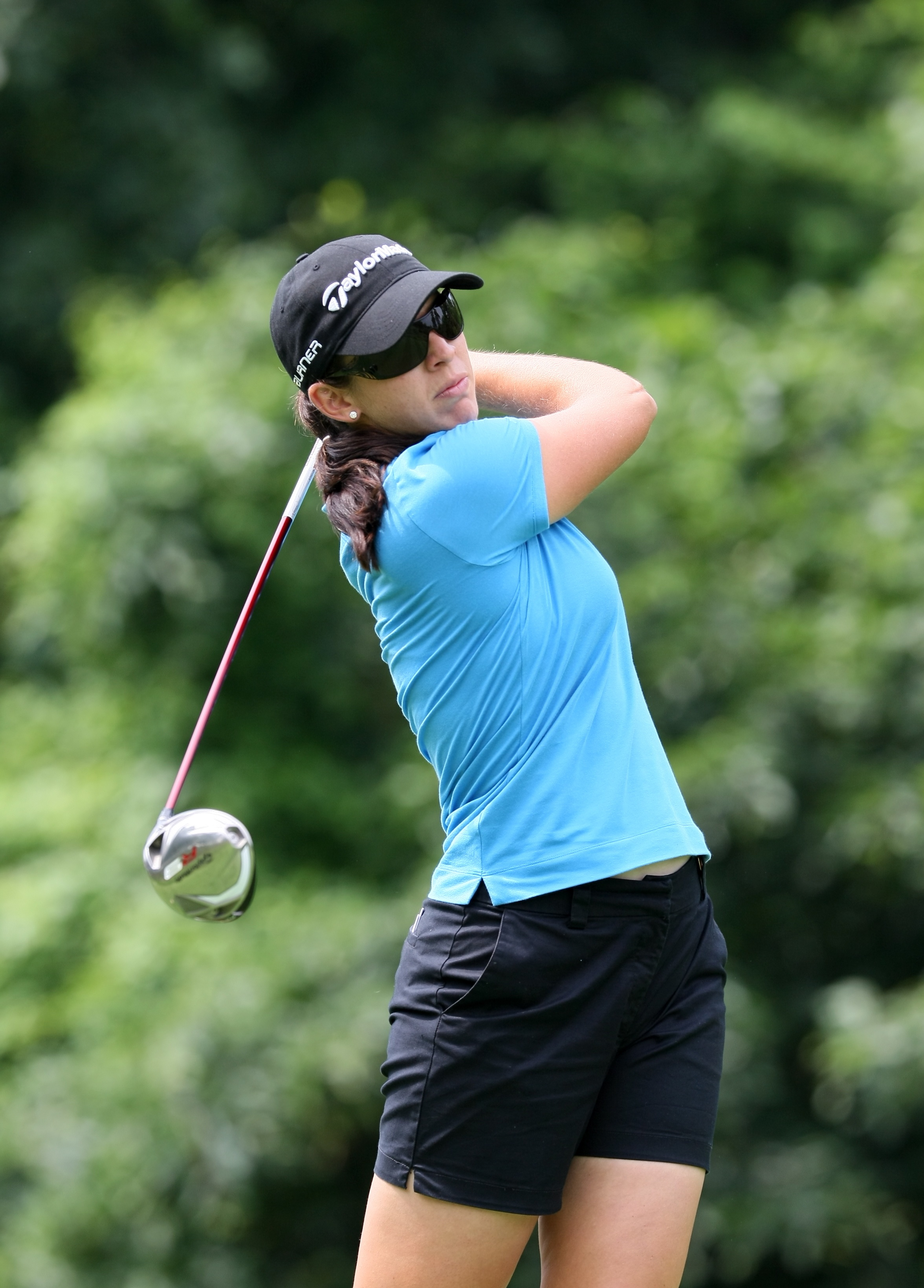 HAVRE DE GRACE, MD - JUNE 09: Nicole Castrale (USA) during Pro-Am before 2009 LPGA Championship held at Bulle Rock Golf Course, on June 9, 2009 in Havre de Grace, Maryland. (Photo by Keith Allison)